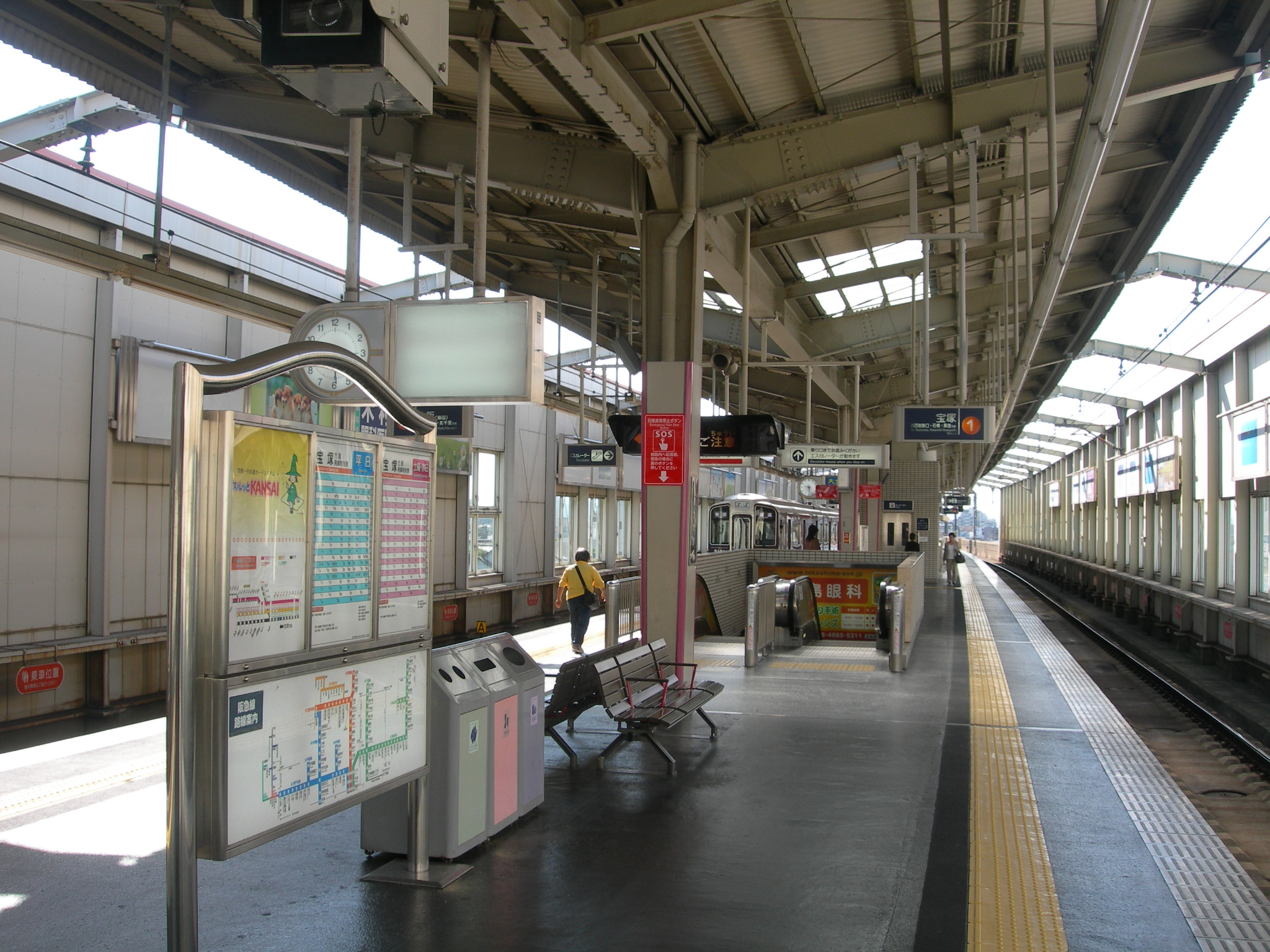 Railway platform of Okamachi Station, Hankyū Takarazuka Main Line.